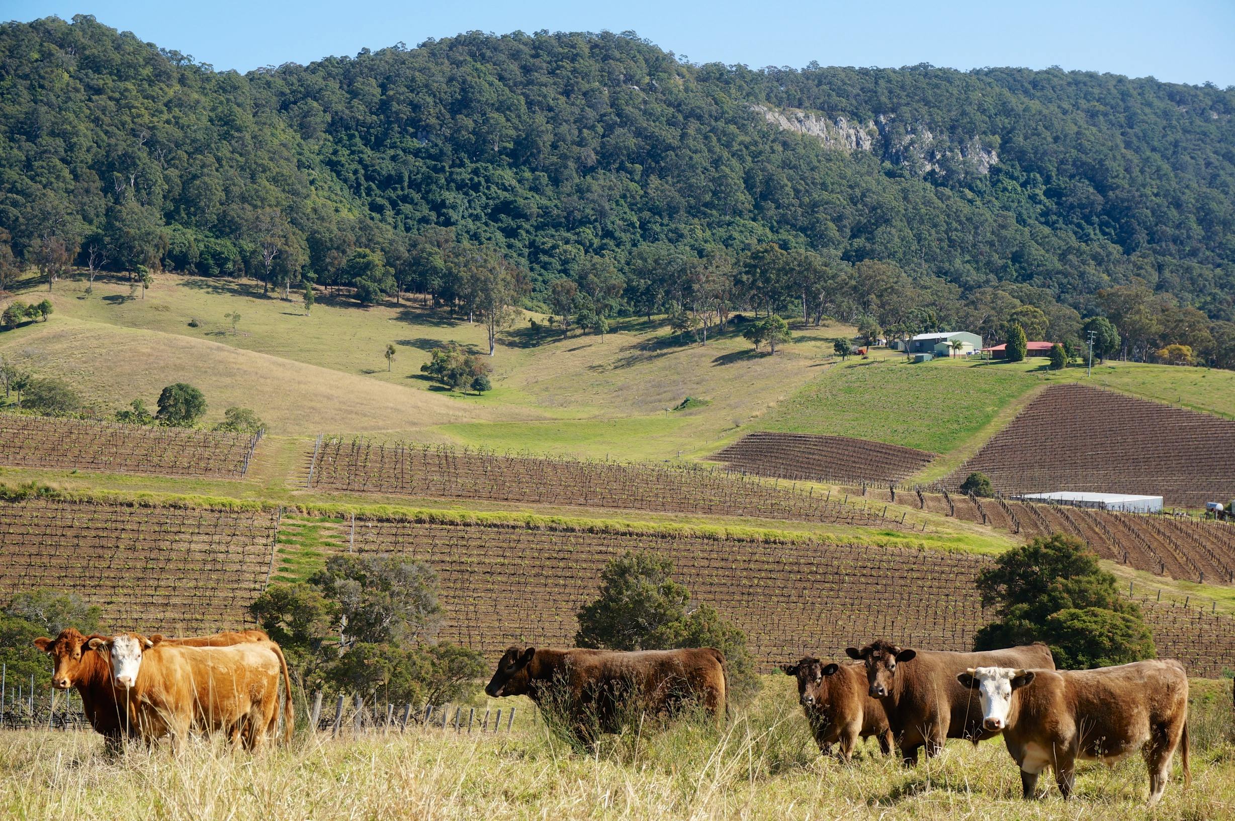 Cows and Hunter Valley Vineyard